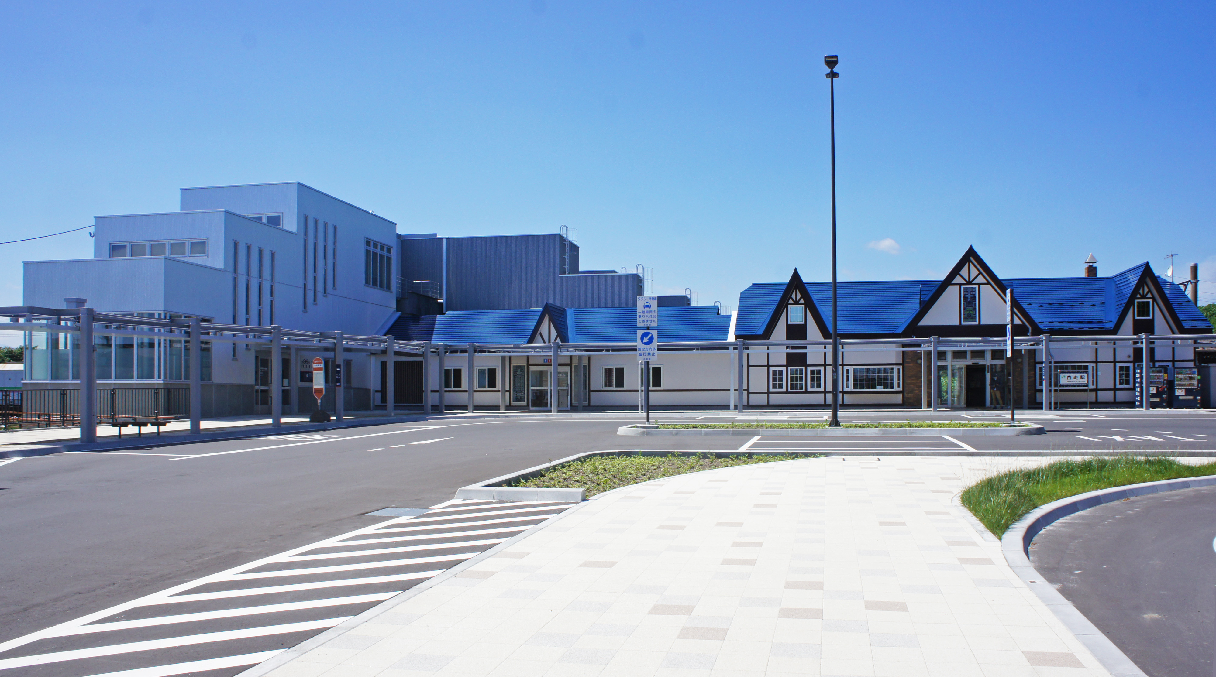 Station building and Free Passage of JR Muroran-Main-Line Shiraoi Station. It was renewed on March 14, 2020. Sony NEX-3 + E 18-55mm F3.5-5.6 OSS